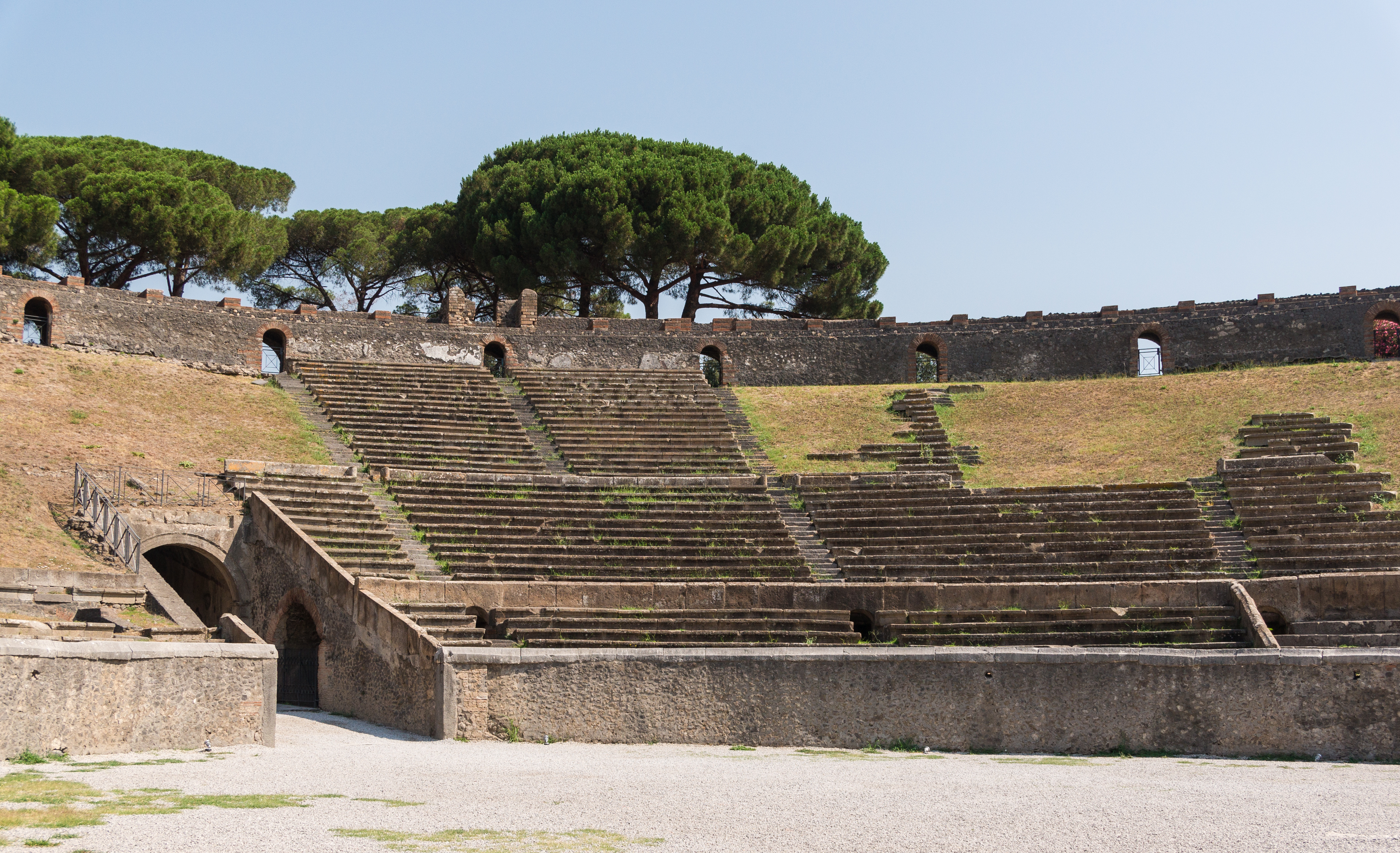 View of the amphitheater of Pompeii, Italy